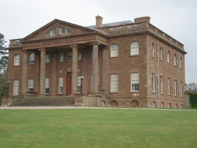 Berrington Hall Characteristic red sandstone, from which many buildings in the area are constructed.